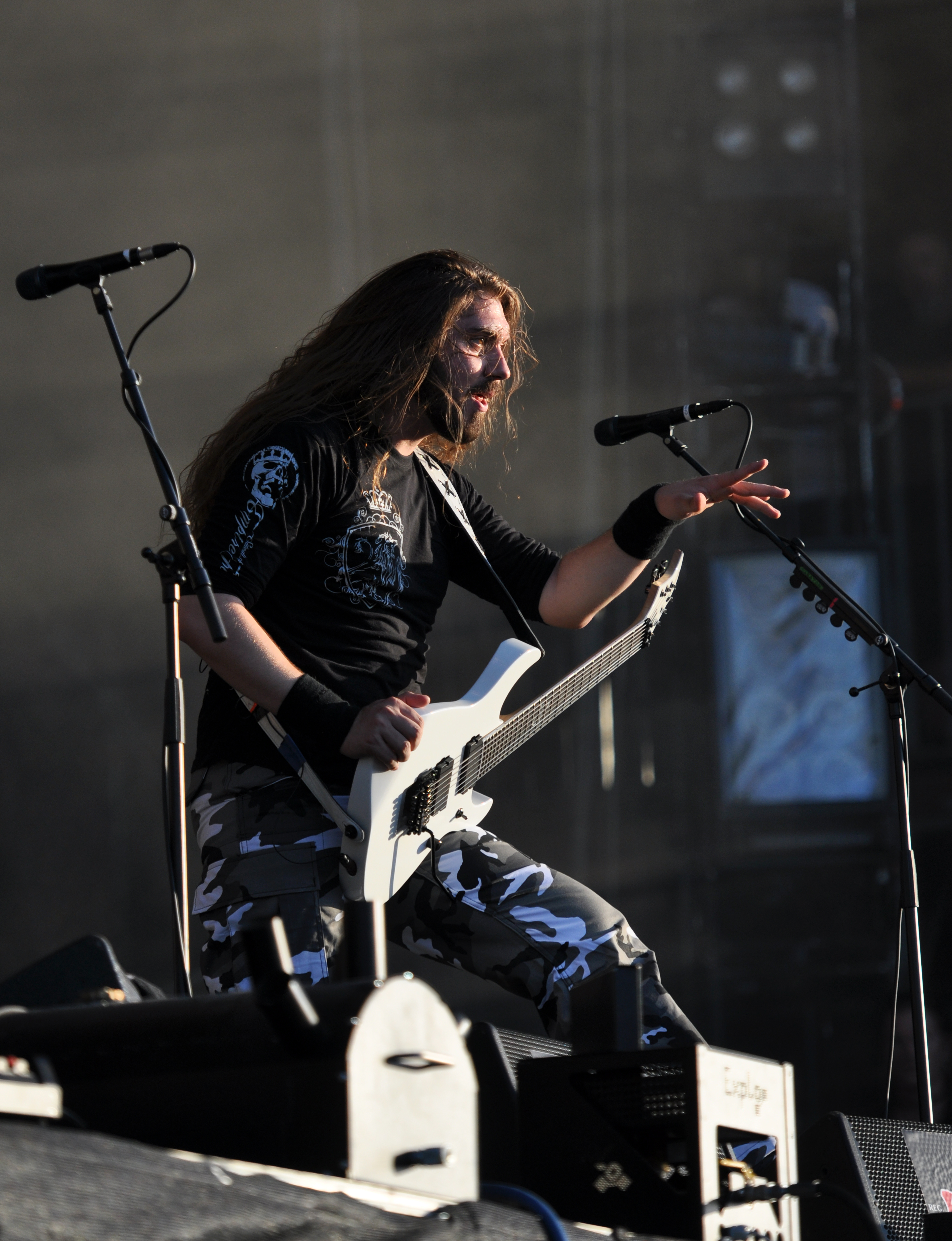 Sabaton at Wacken Open Air 2013